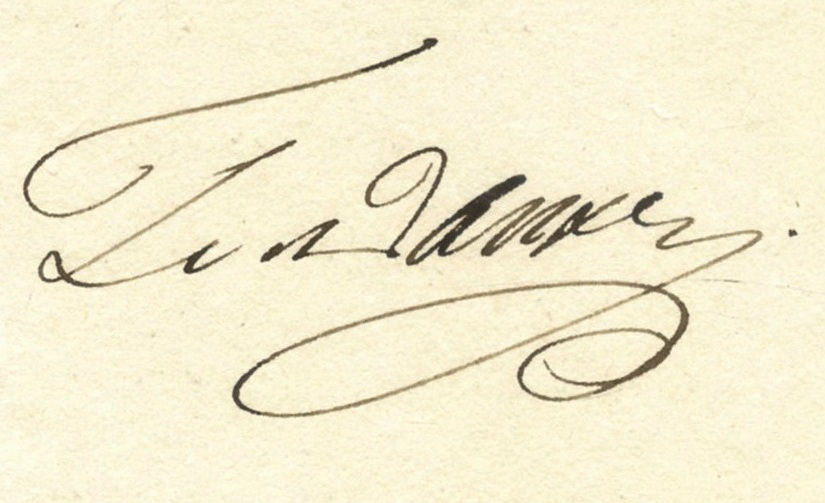 Signature of Commandant of the Dinaburg (Daugavpils) Fortress Lieutenant-General Gustav Gelvih, 1845